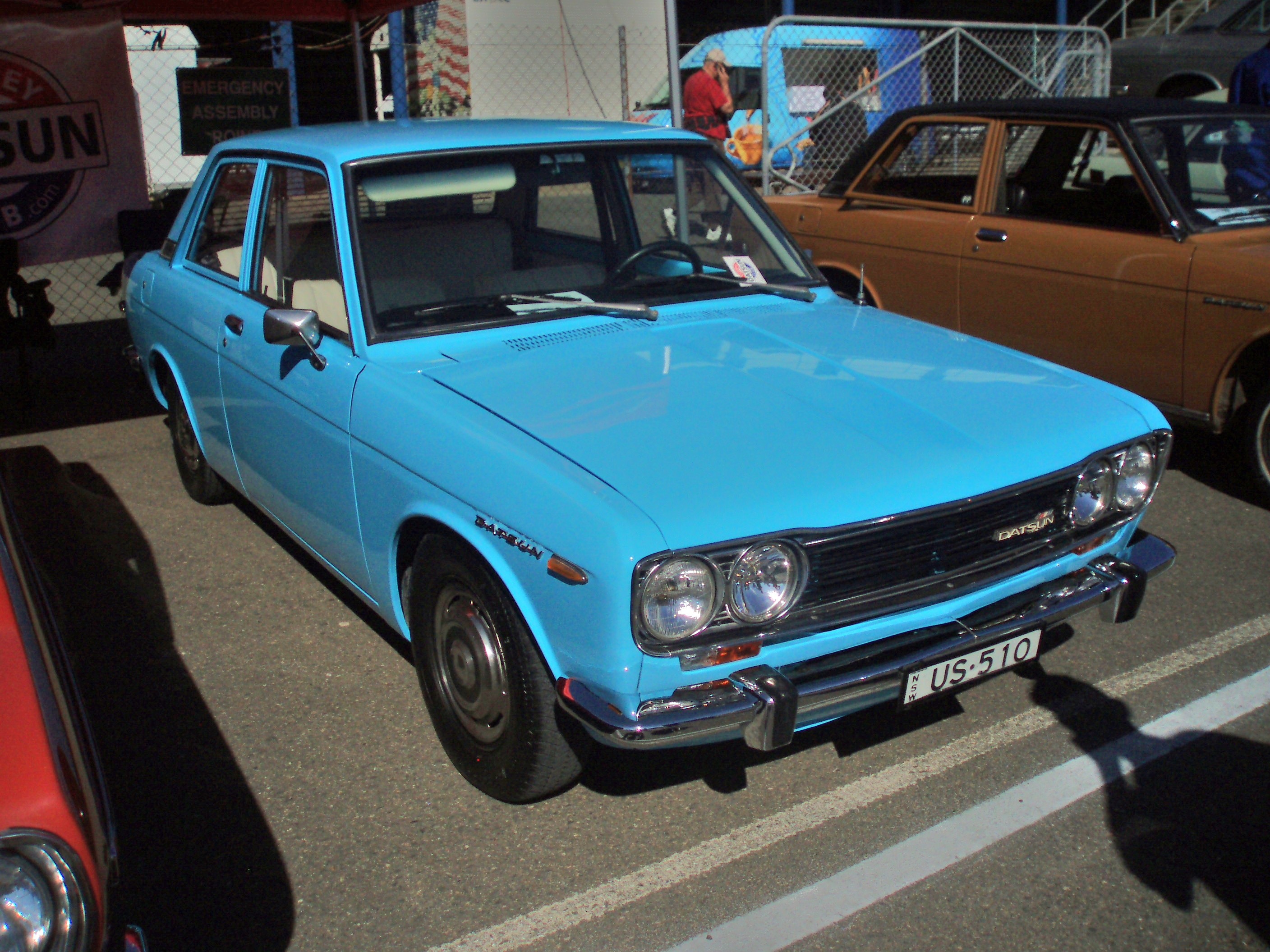 Datsun 510 two door sedan. Taken at Shannon's Eastern Creek Classic 2009, held at Eastern Creek Raceway Sydney.